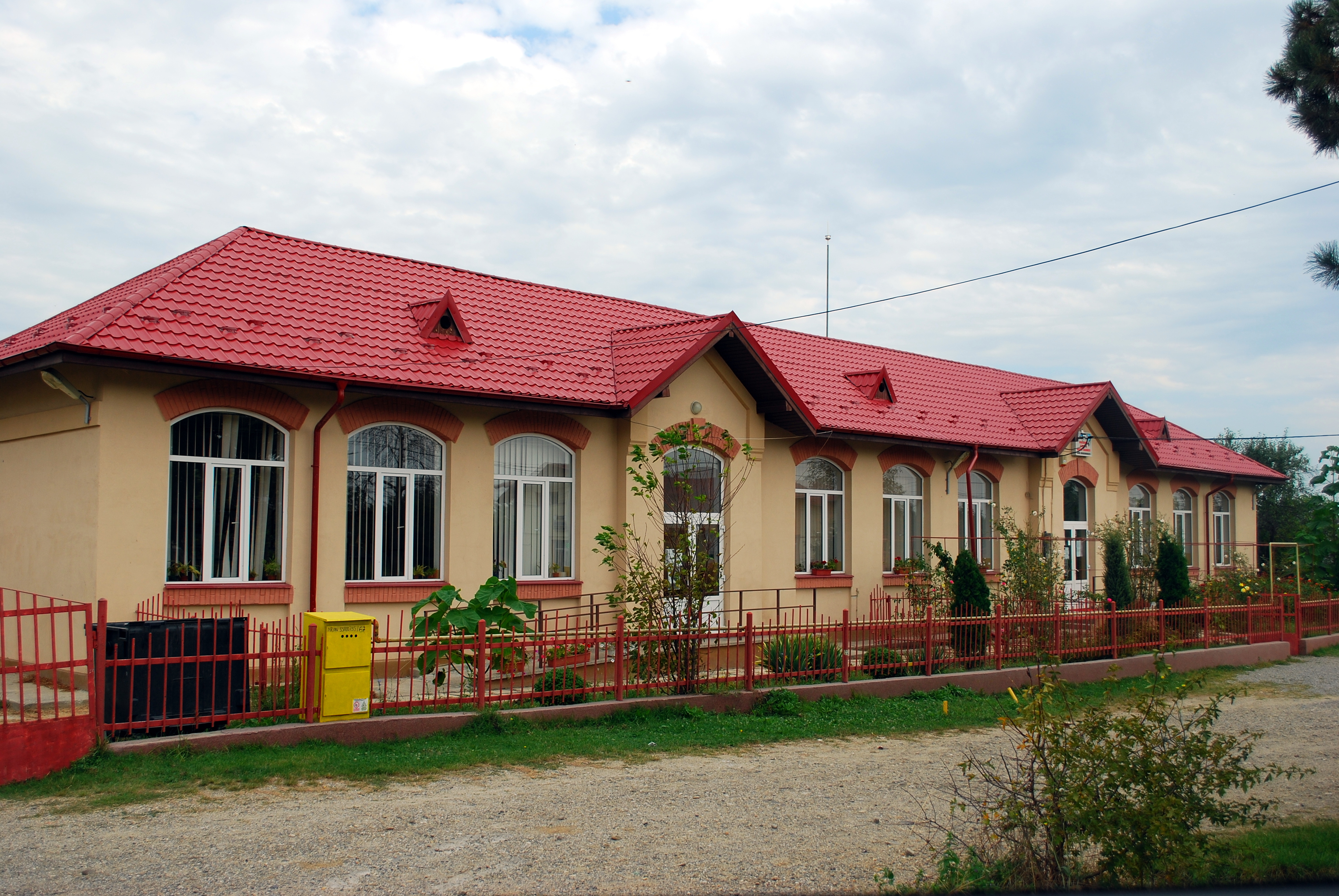 Schoolhouse in Râncăciov, Dragomirești Commune, Dâmbovița County, RomaniaRomână: Școala din Râncăciov, comuna Dragomirești, județul Dâmbovița, România